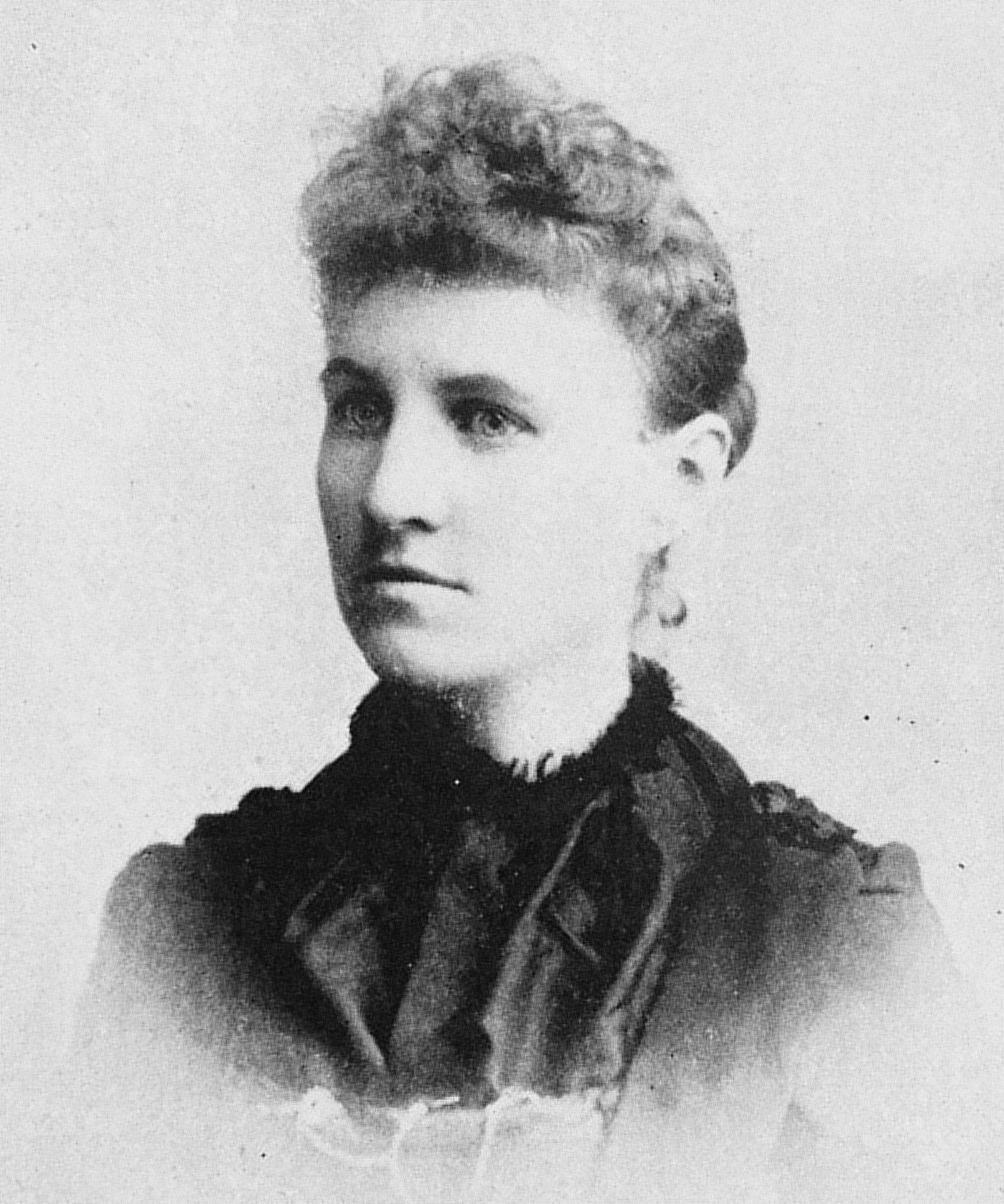 A Woman of the Century